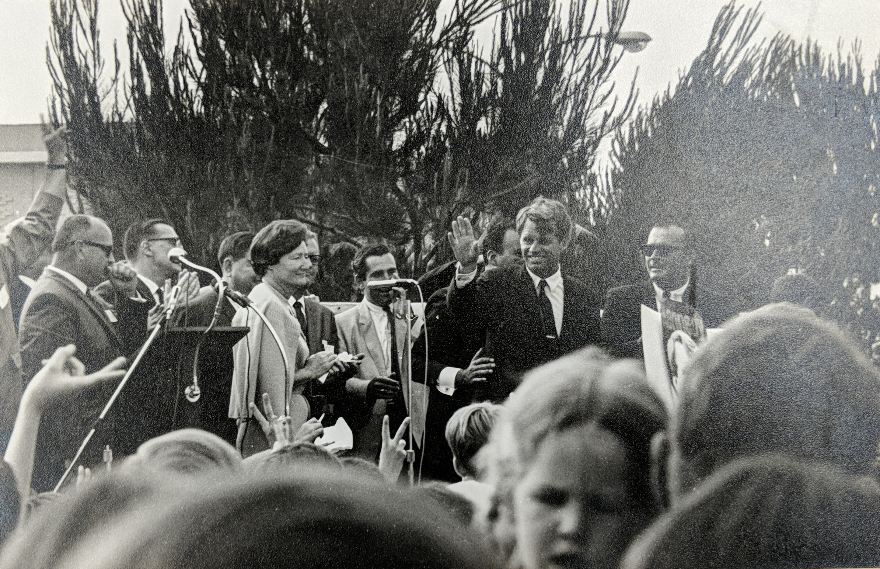 Senator Robert Kennedy appeared in Oxnard, CA, the day before his assassination. Jane Tolmach is to the Senator's left and the only woman on the dais. Photo from the Jane Tolmach Collection, California State University Channel Islands.